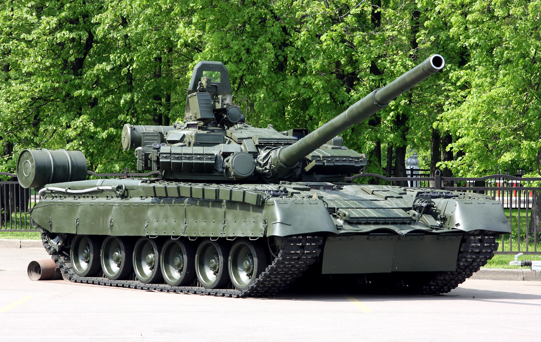 T-80BV at 9 May 2010 military vehicles static displays in Luzhniki